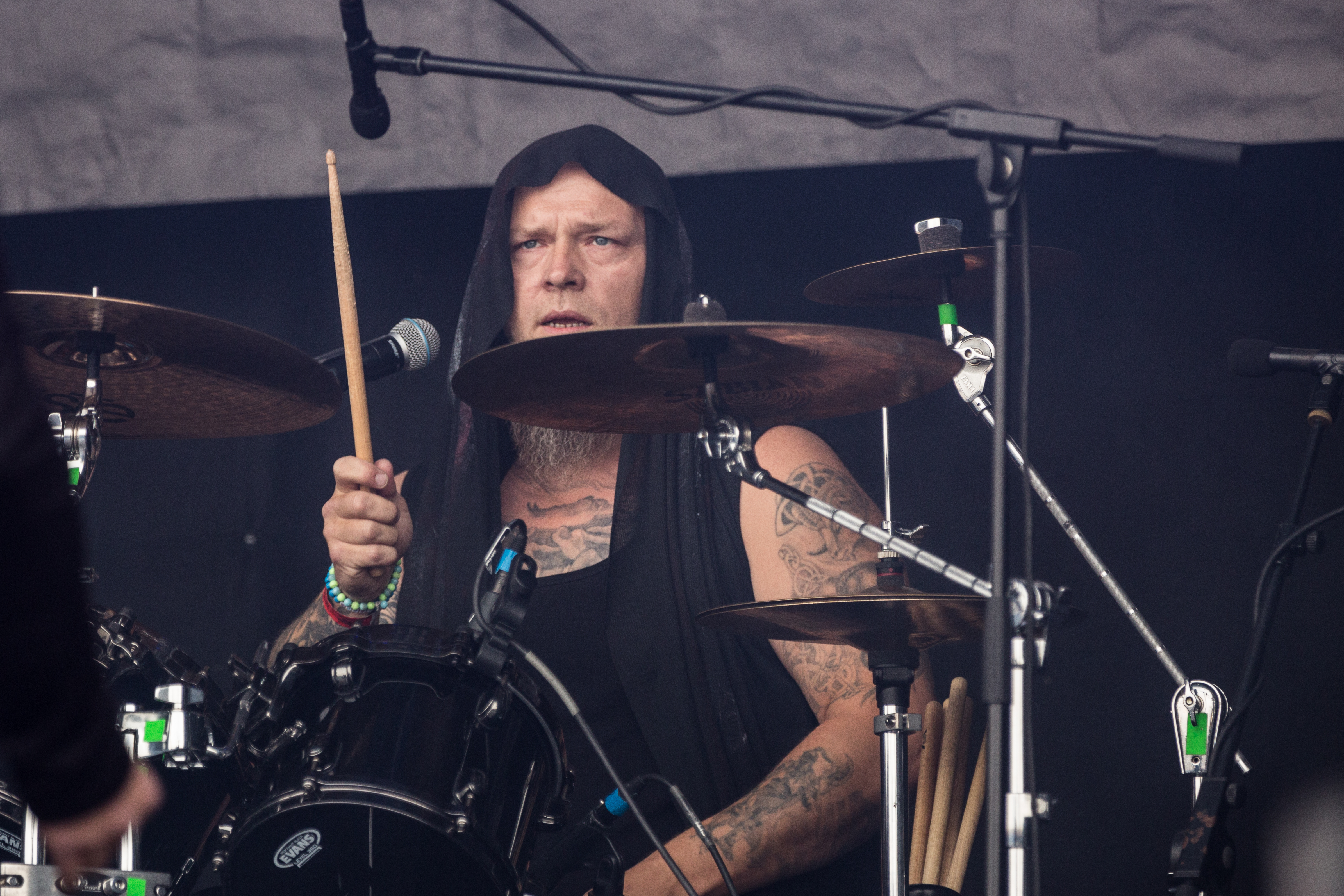 The Norwegian progressive black metal band Hades Almighty at the Party.San Metal Open Air 2017 in Obermehler-Schlotheim/Germany.